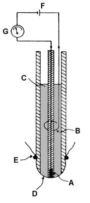 Clark Electrode